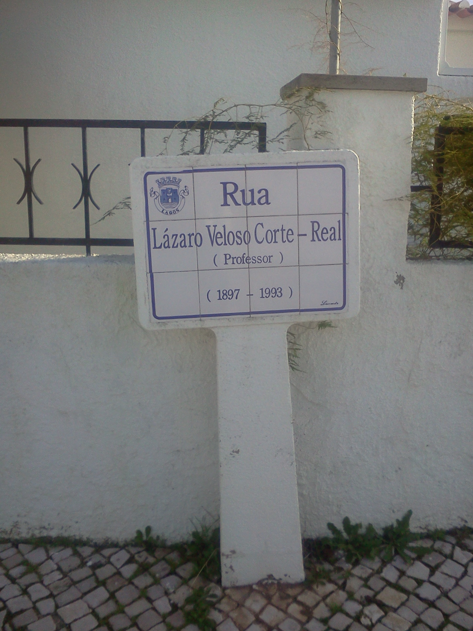 Street sign of Rua José Lázaro Veloso Corte-Real, in the city of Lagos, in southern Portugal.